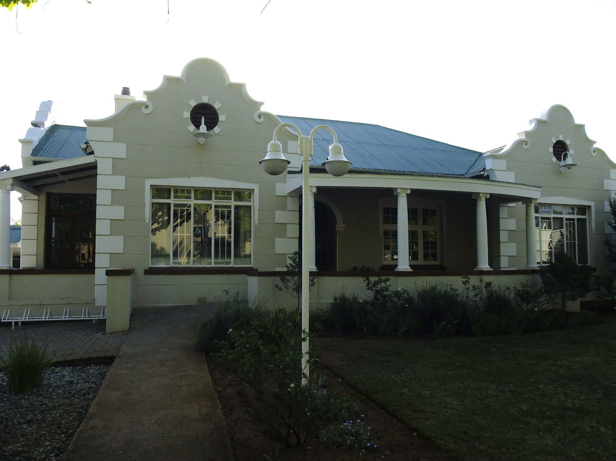 Roets House, 61 Tom Street, Potchefstroom (new street name: Steve Biko Avenue) This media shows a South African Protected Site with SAHRA file reference 9/2/256/0040.